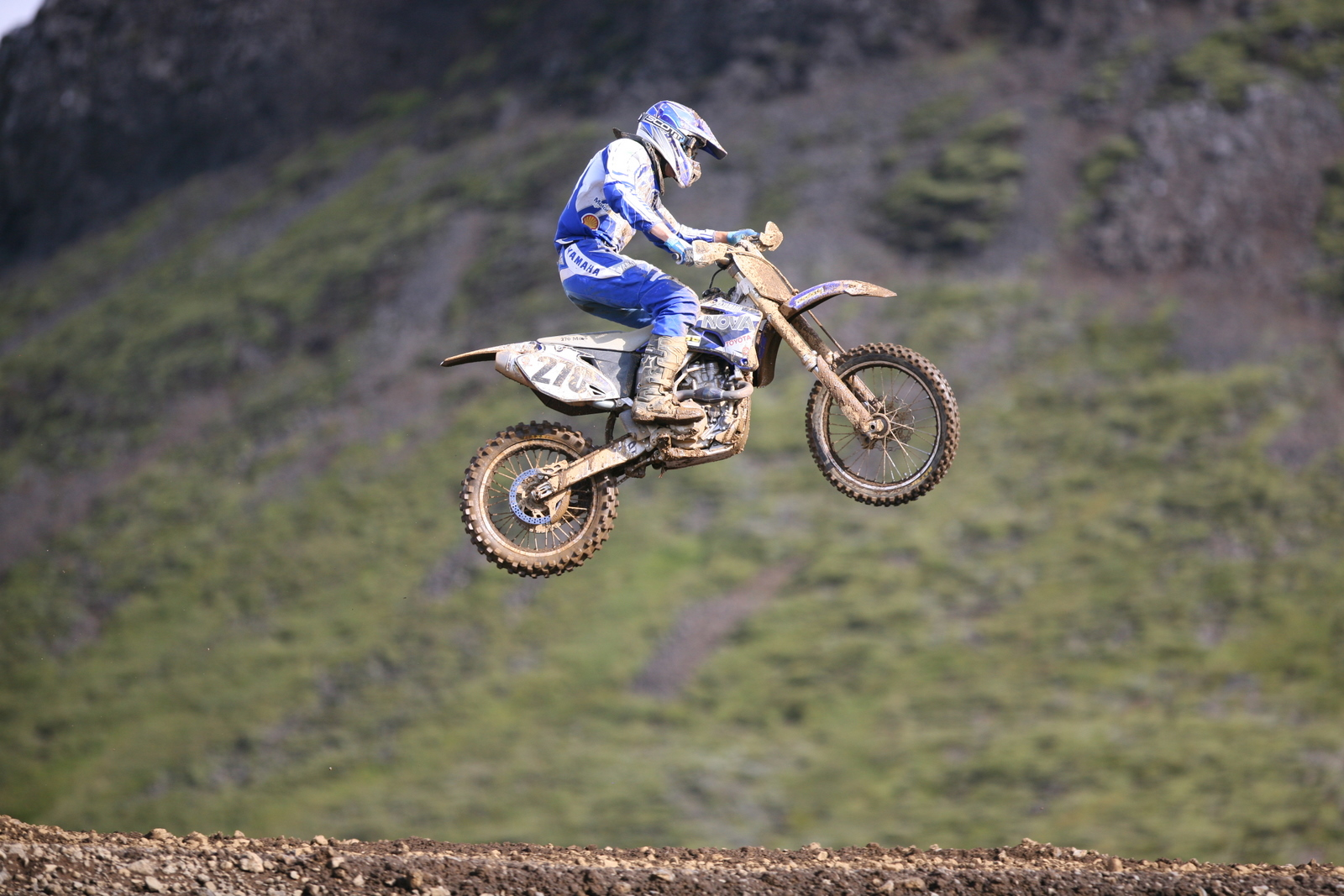 Exhaust system with minimal expansion Chamber (powerbomb/megabomb)